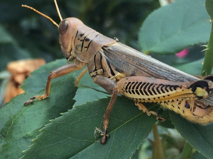 Differential Grasshopper seen in Arlington, Texas, USA.